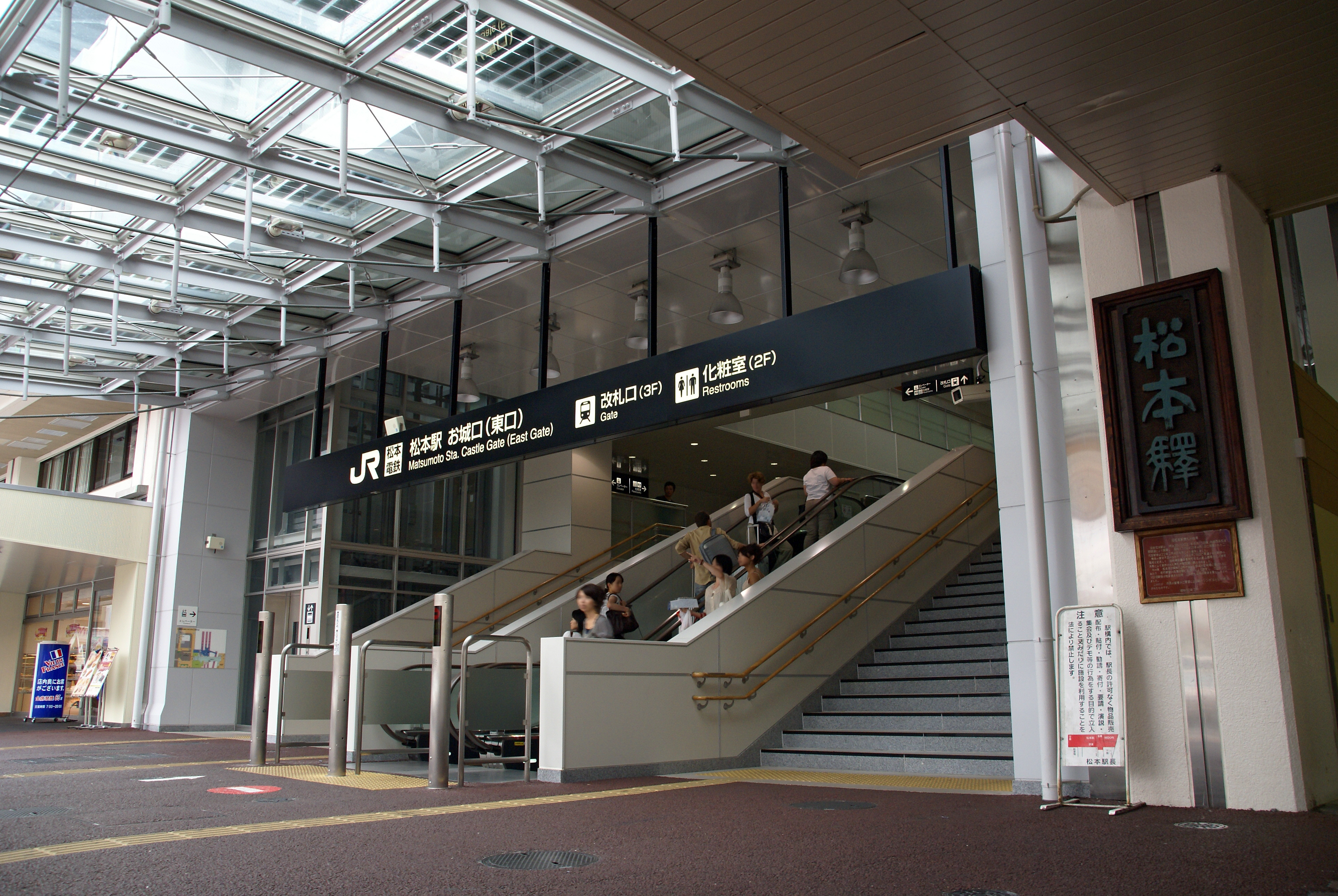 Matsumoto Station in Matsumoto, Nagano prefecture, Japan